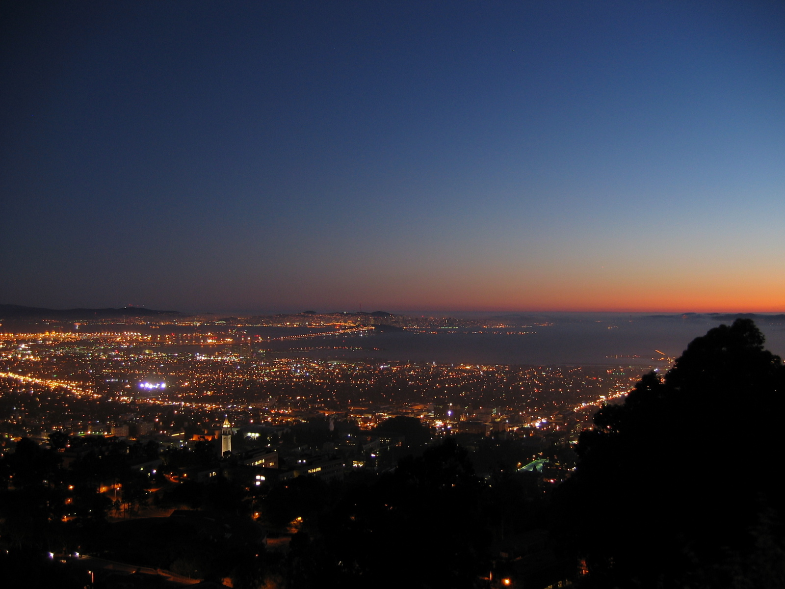 Berkeley, San Francisco Bay, and San Francisco at nightfall — view from the Berkeley Hills.